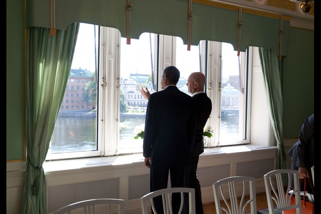 President Barack Obama and Prime Minister Fredrik Reinfeldt of Sweden look out a window of Rosenbad prior to their bilateral meeting in Stockholm, Sweden.